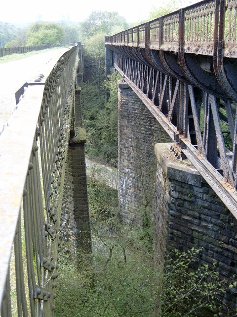 Millers Dale Viaduct. Looking towards Millers Dale station on the Monsal Trail